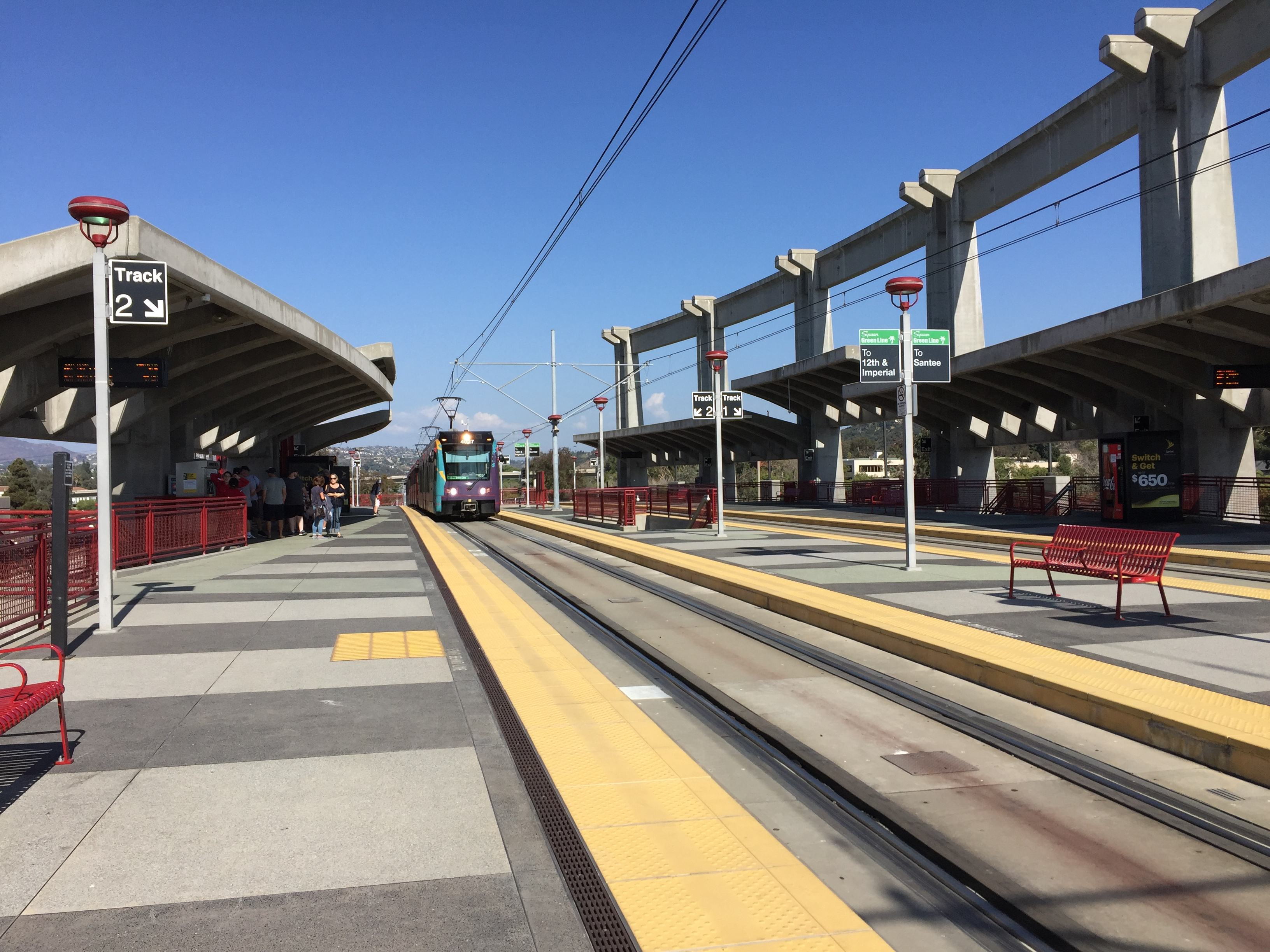 San Diego State University Stadium San Diego Trolley station in 2019